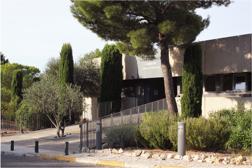 CIML entry